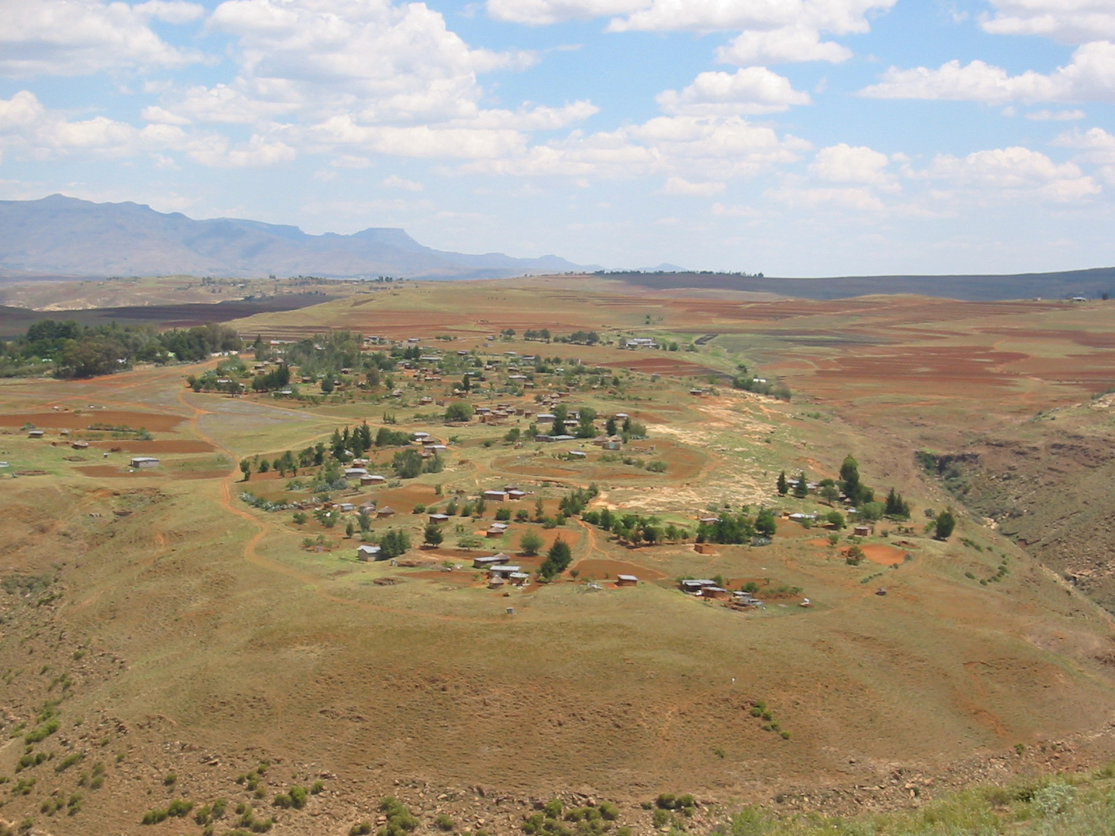 Malealea: This town in Lesotho is called Malealea and it is a fantastic place. Malealea is situated in a remote part of Western Lesotho